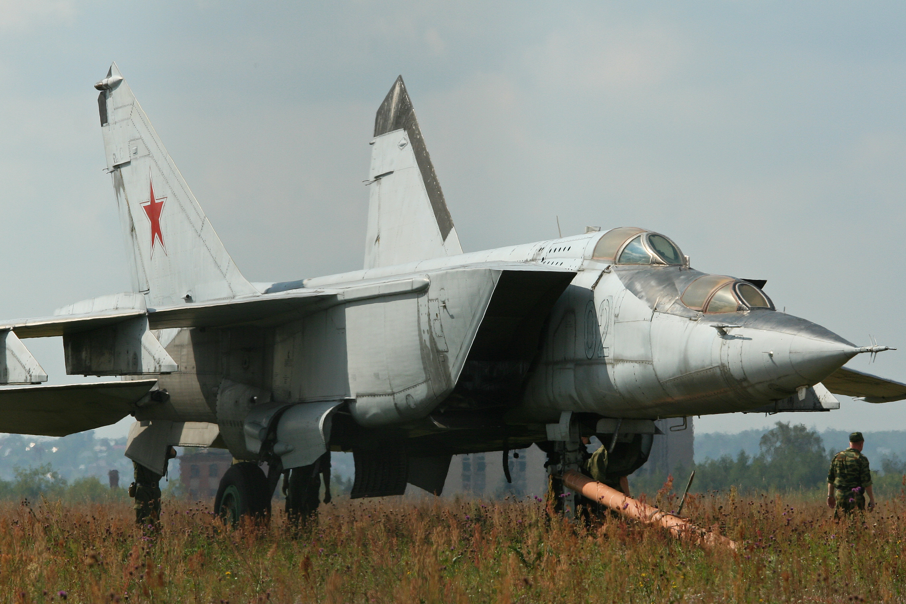 Previously operated from Zhukovsky, probably by the Gromov Flight Research Institute. Now stored, either for display in a proposed museum, or for scrapping. c/n N22044011. Stored on a grass area next to part of the crowdline and seen during the Russian Air Force 100th Anniversary Airshow. Zhukovsky, Russia. 12-8-2012